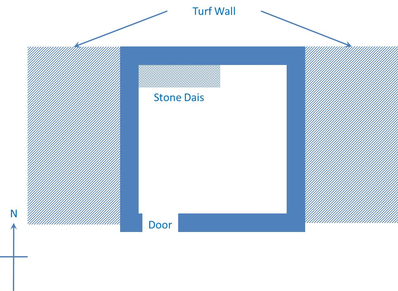 Plan of typical turret on turf section of Hadrian's Wall